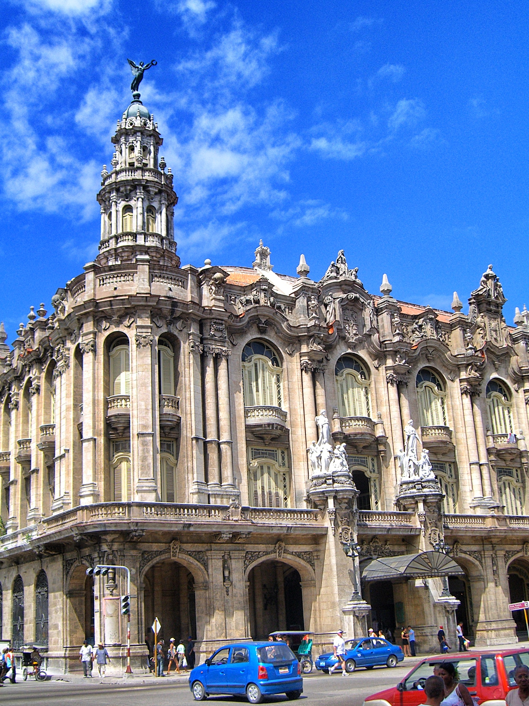 Great Theatre of havana/ Galician Center Building